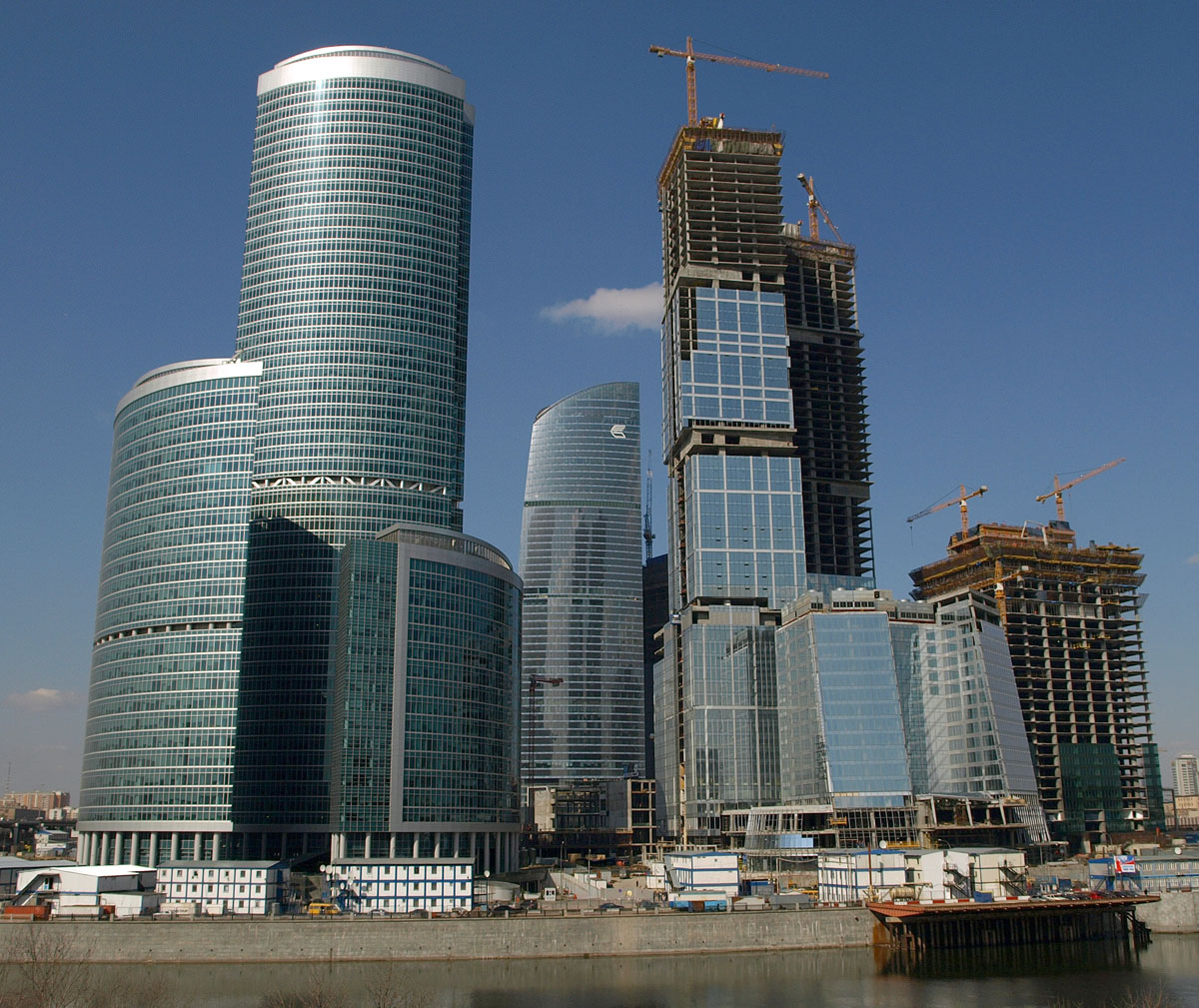 Moscow City site. 30/03/2008